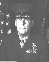 Brig General Walter Fillmore